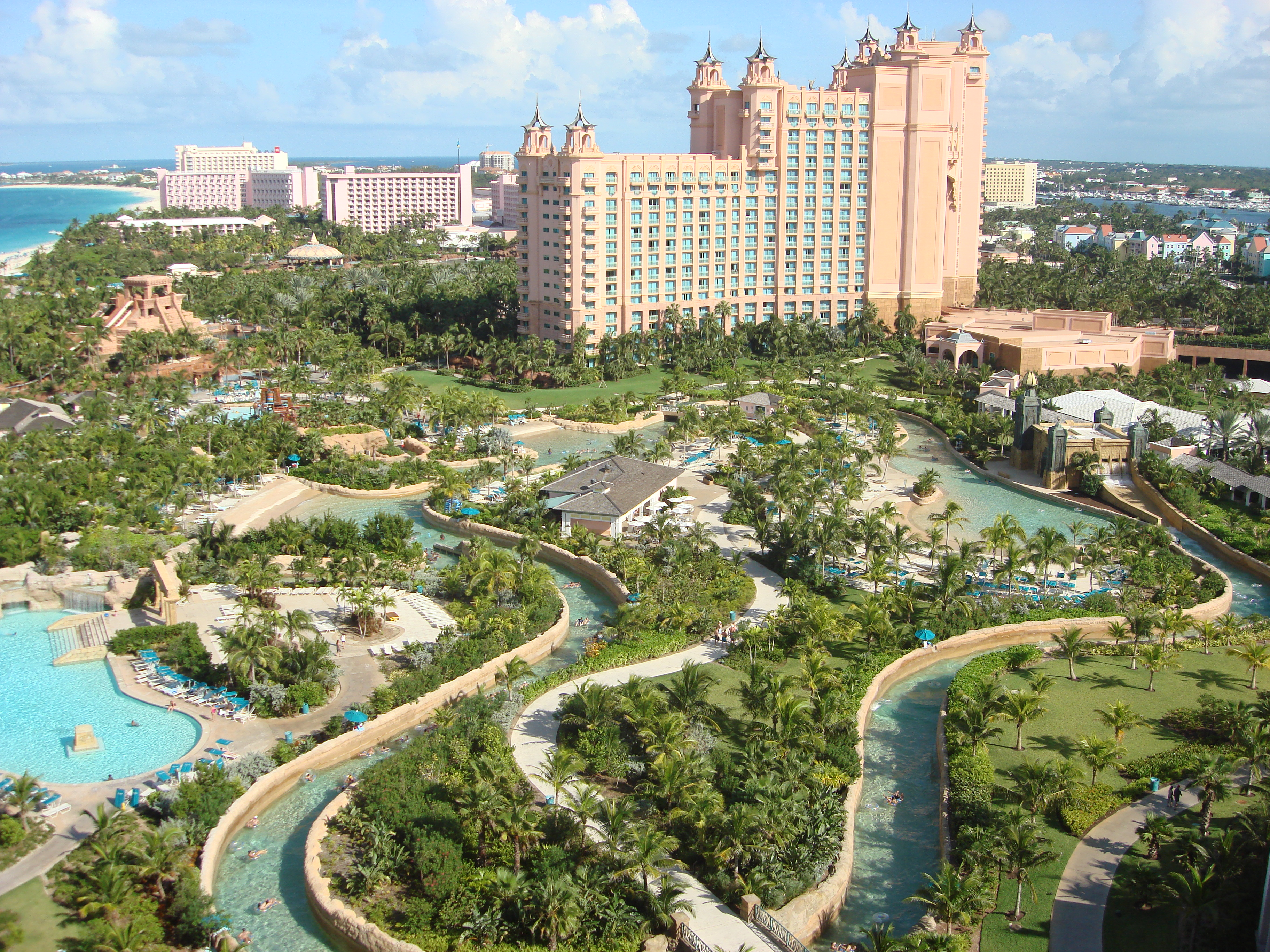 The Atlantis Bahamas water ride called The Current is a mile long and features water elevators, rapids, and waves.